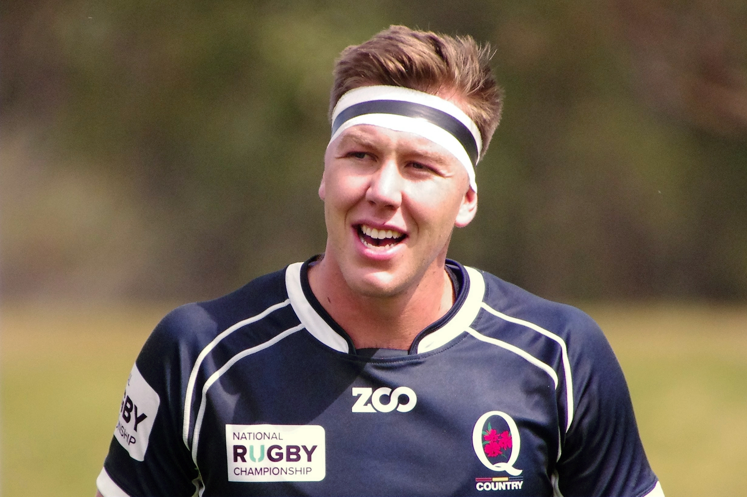 Angus Blythe playing lock for Queensland Country against the Sydney Rays in the 2017 National Rugby Championship at Pittwater Park.